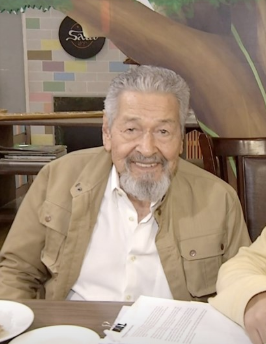 Eddie Garcia (cropped) posing for a photo with me in 2019.